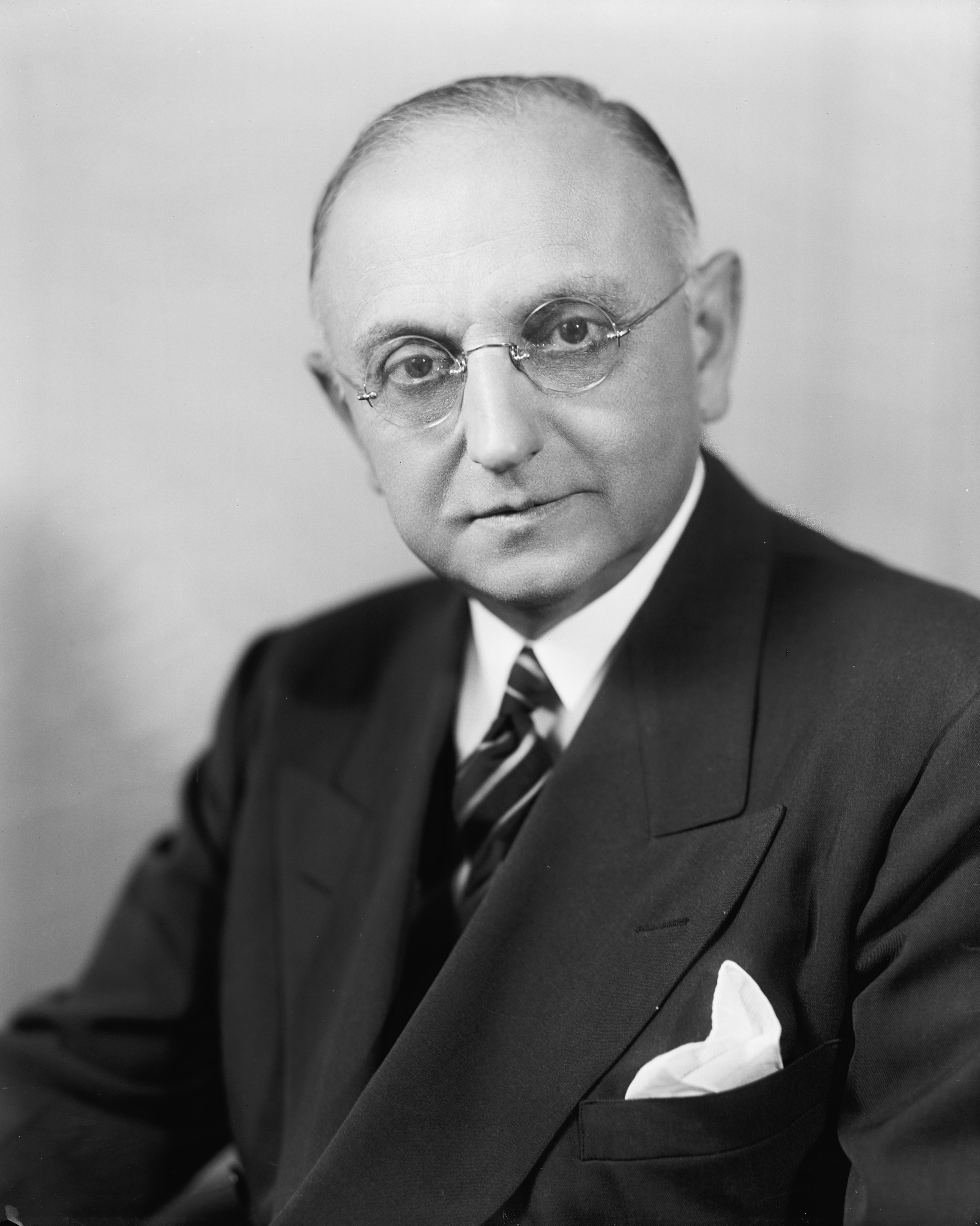 Dr Frank Buchman was an American Lutheran pastor who founded the Oxford Group in 1921 which became Moral Re-Armament in 1938 and Initiatives of Change in 2001. He was decorated both by France and Germany for his role in the French-German reconciliation.